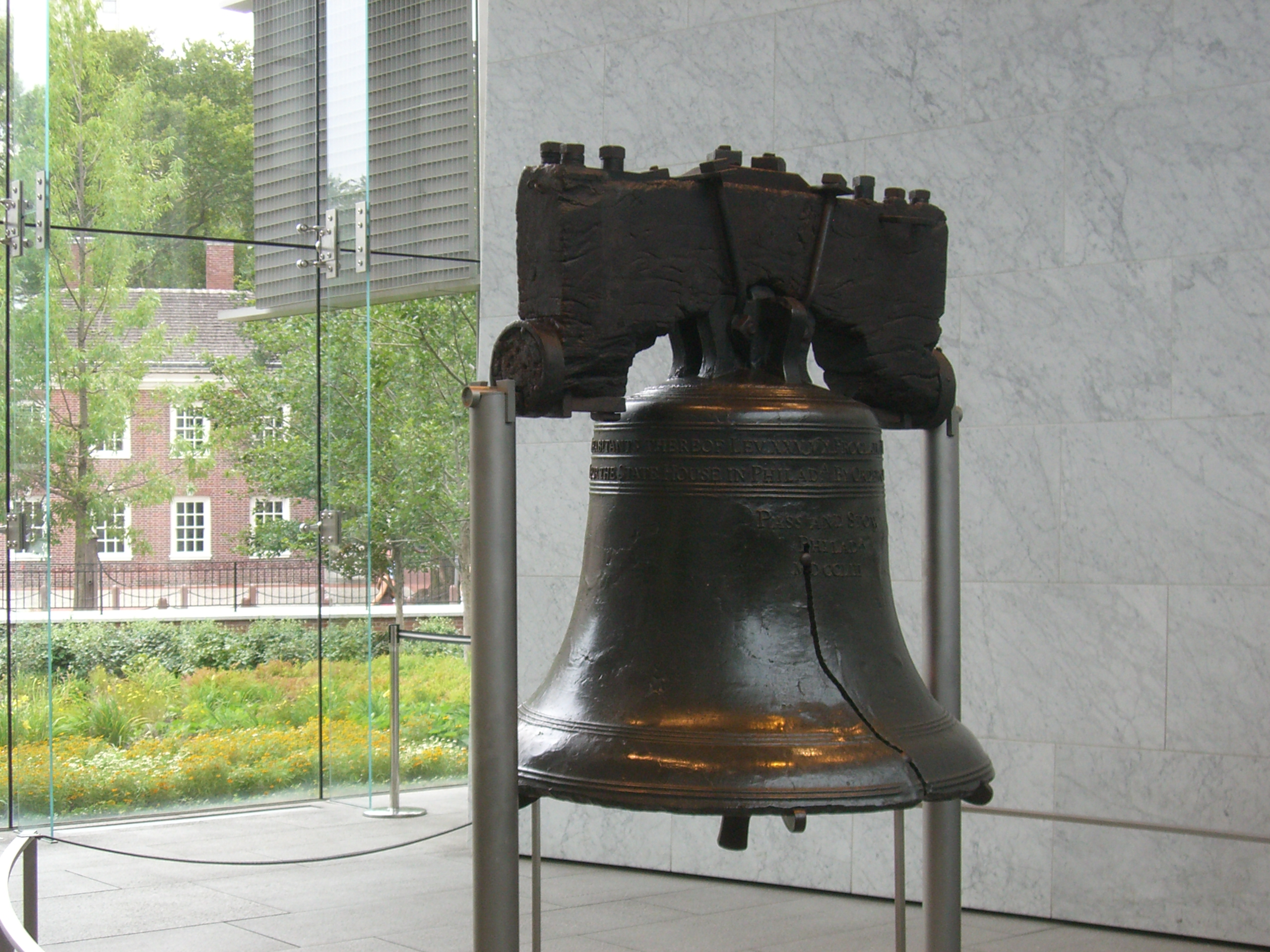 Independence Hall, Philadelphia, USA